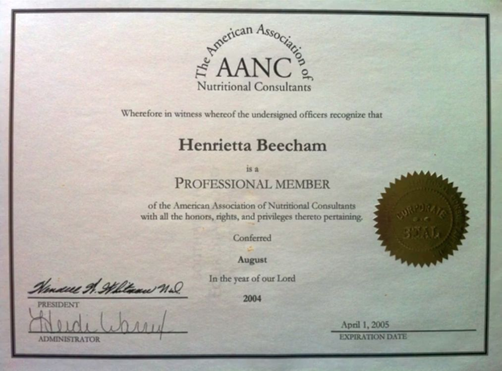 American Association of Nutritional Consultants diploma granted to Ben Goldacre's dead cat Henrietta in 2004.